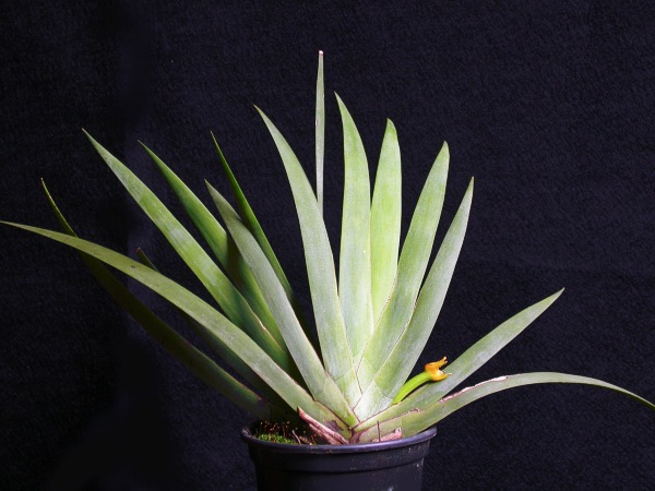 Heterotaxis valenzuelana